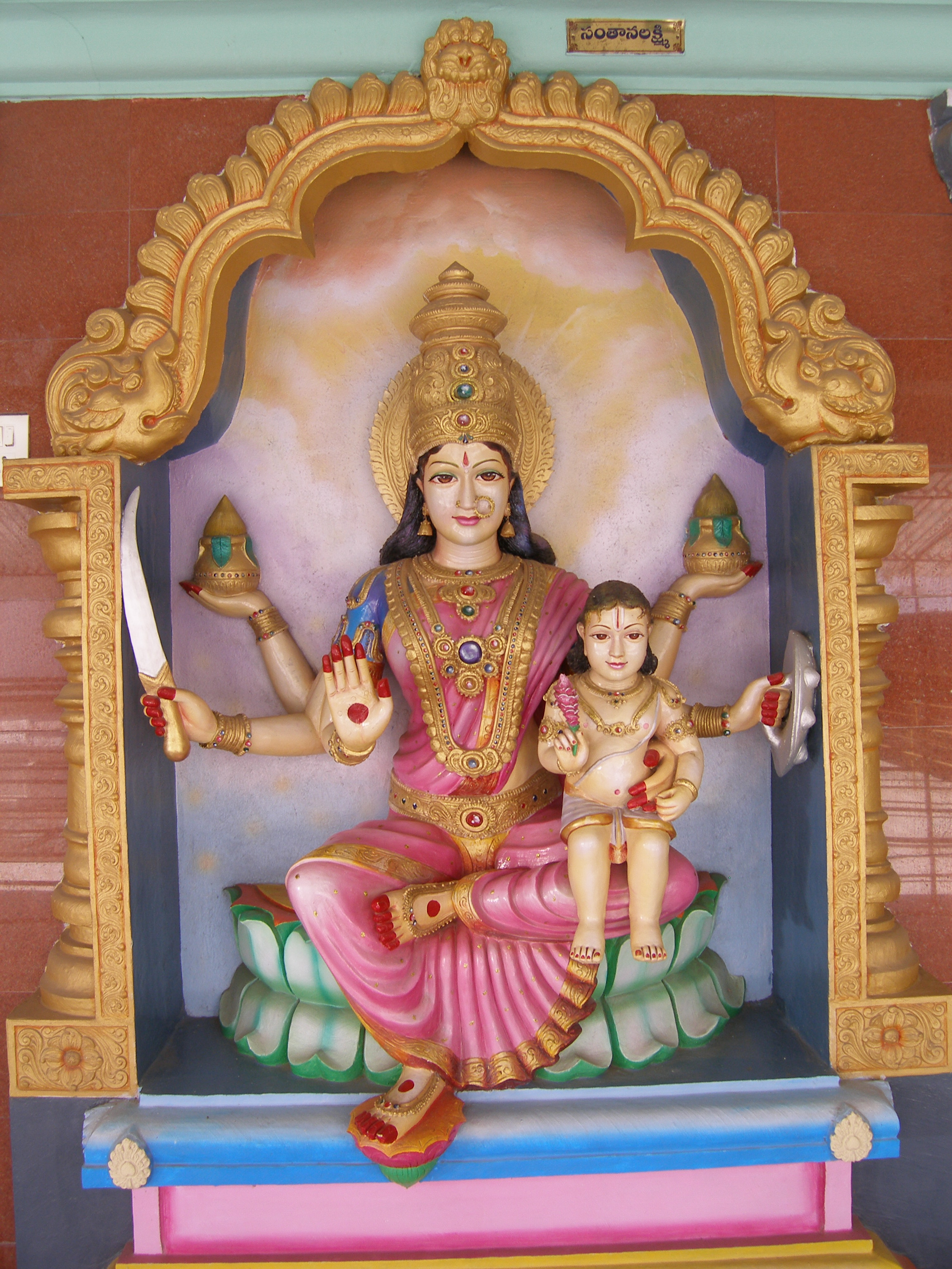 Santana Laxmi at Narayana Tirumala.